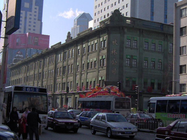 builiding of Chulin Company of Harbin